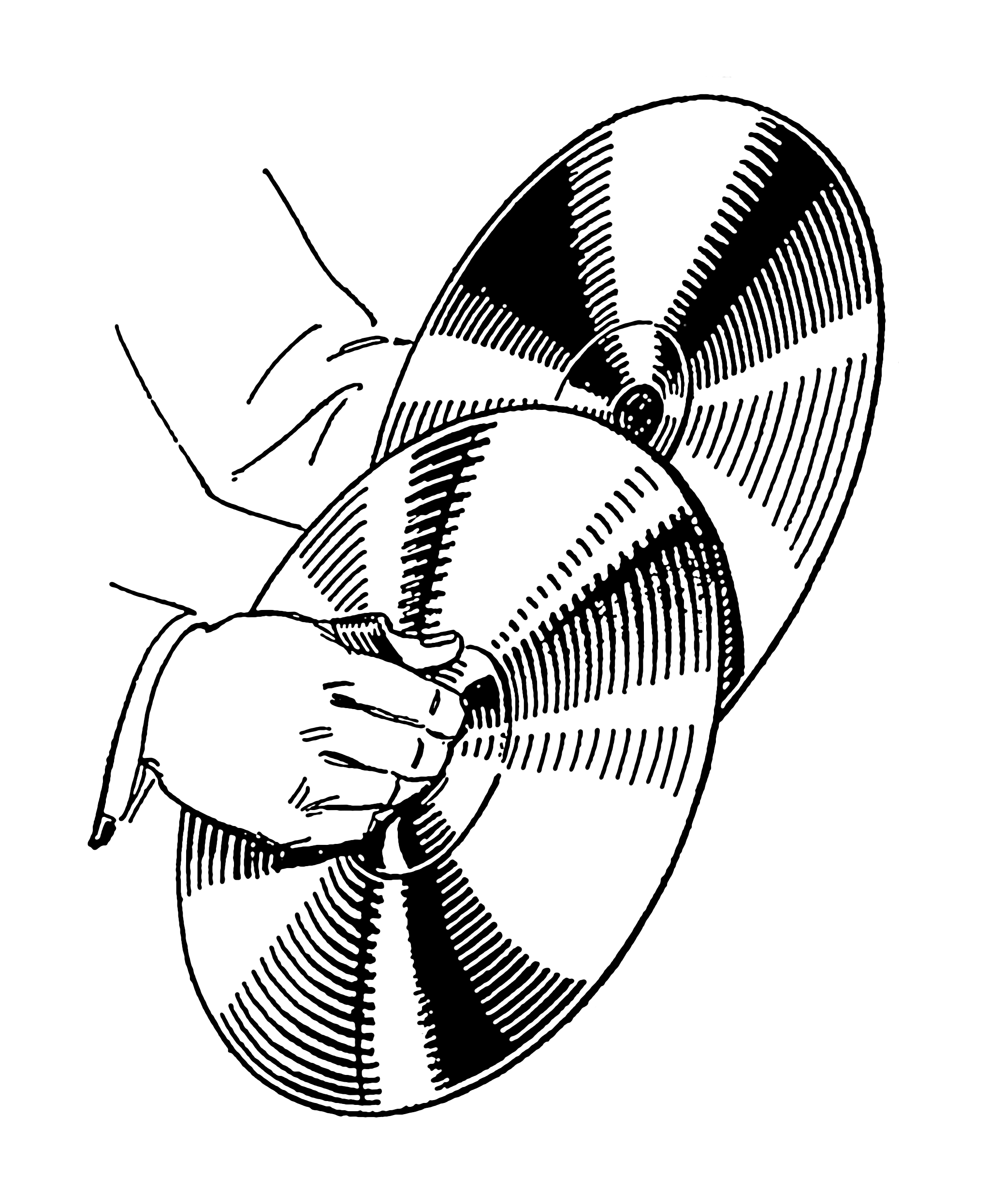 Line art drawing of cymbals.